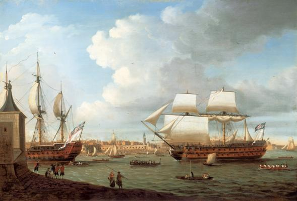 Foudroyant and Pégase entering Portsmouth Harbour, 1782